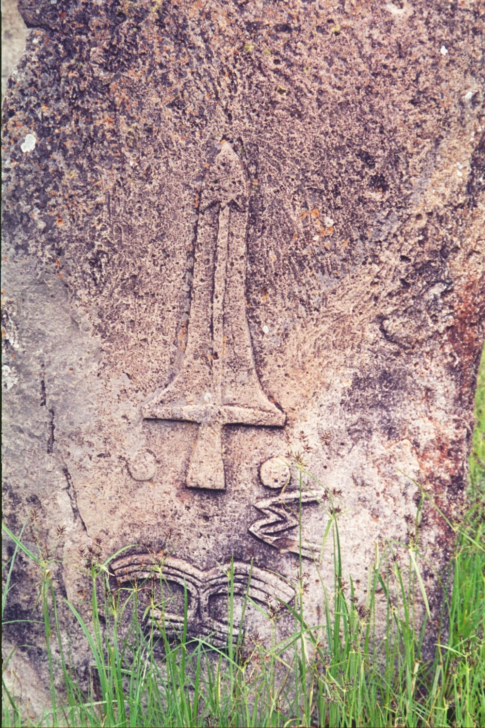 Detail of one of the monuments in the Tiya Stele Field